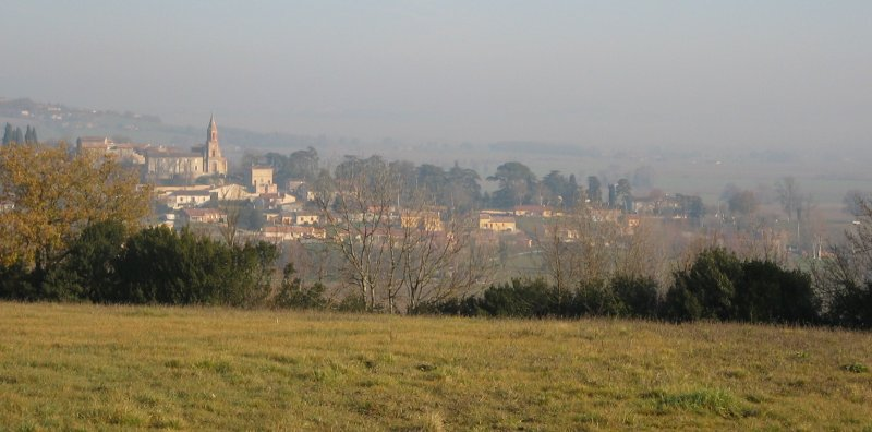 View of Montégut-Lauragais from the Lande, during the winter.